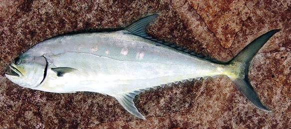 Scomberoides commersonianus, Queensland